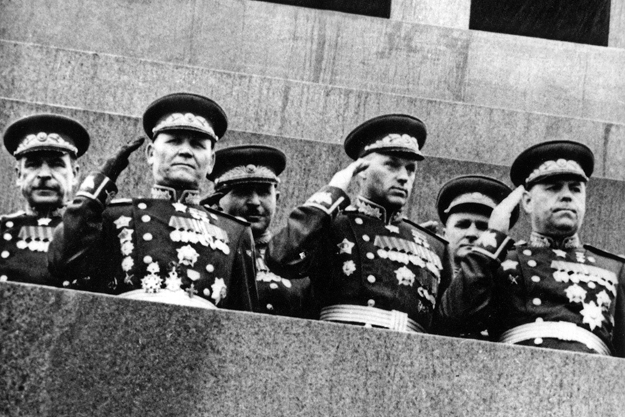 Soviet Victory Parade on Red Square